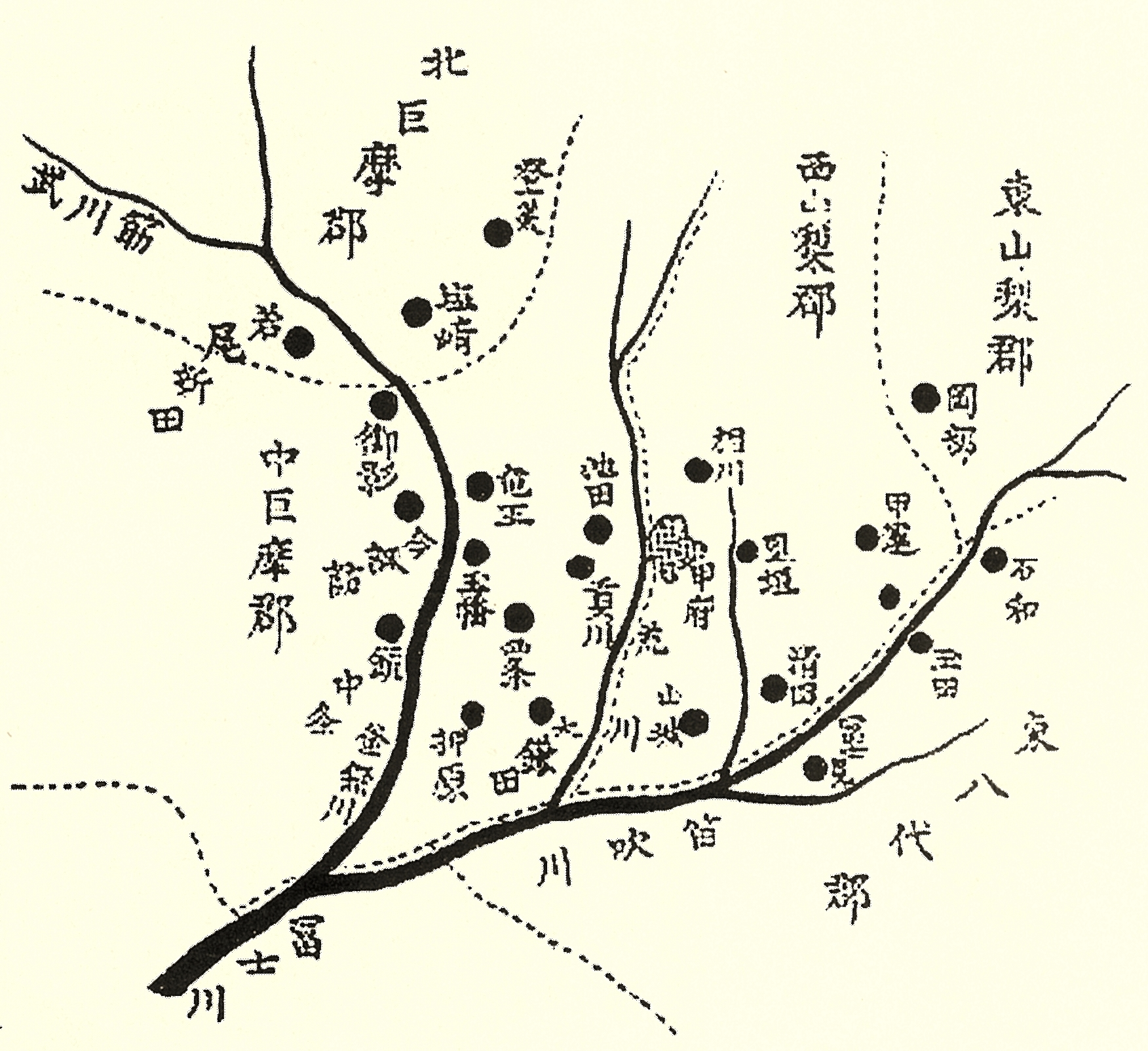 Schistosoma japonicum endemic area map in 1904 Kofu Basin.